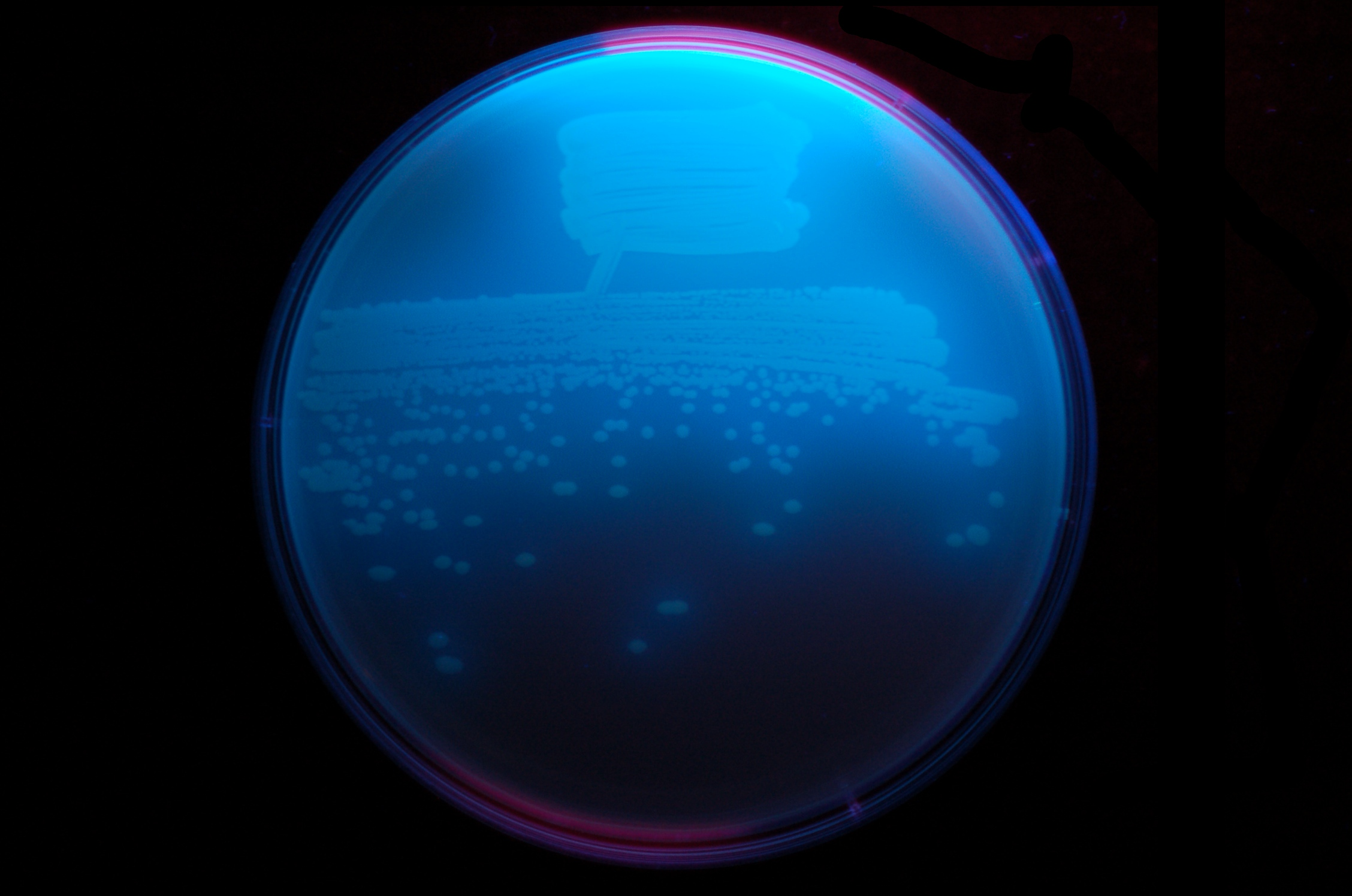 The bacterium Pseudomonas fluorescens streaked to single colonies on Tryptone-Yeast Extract (TY) agar and visualized under ultraviolet light.